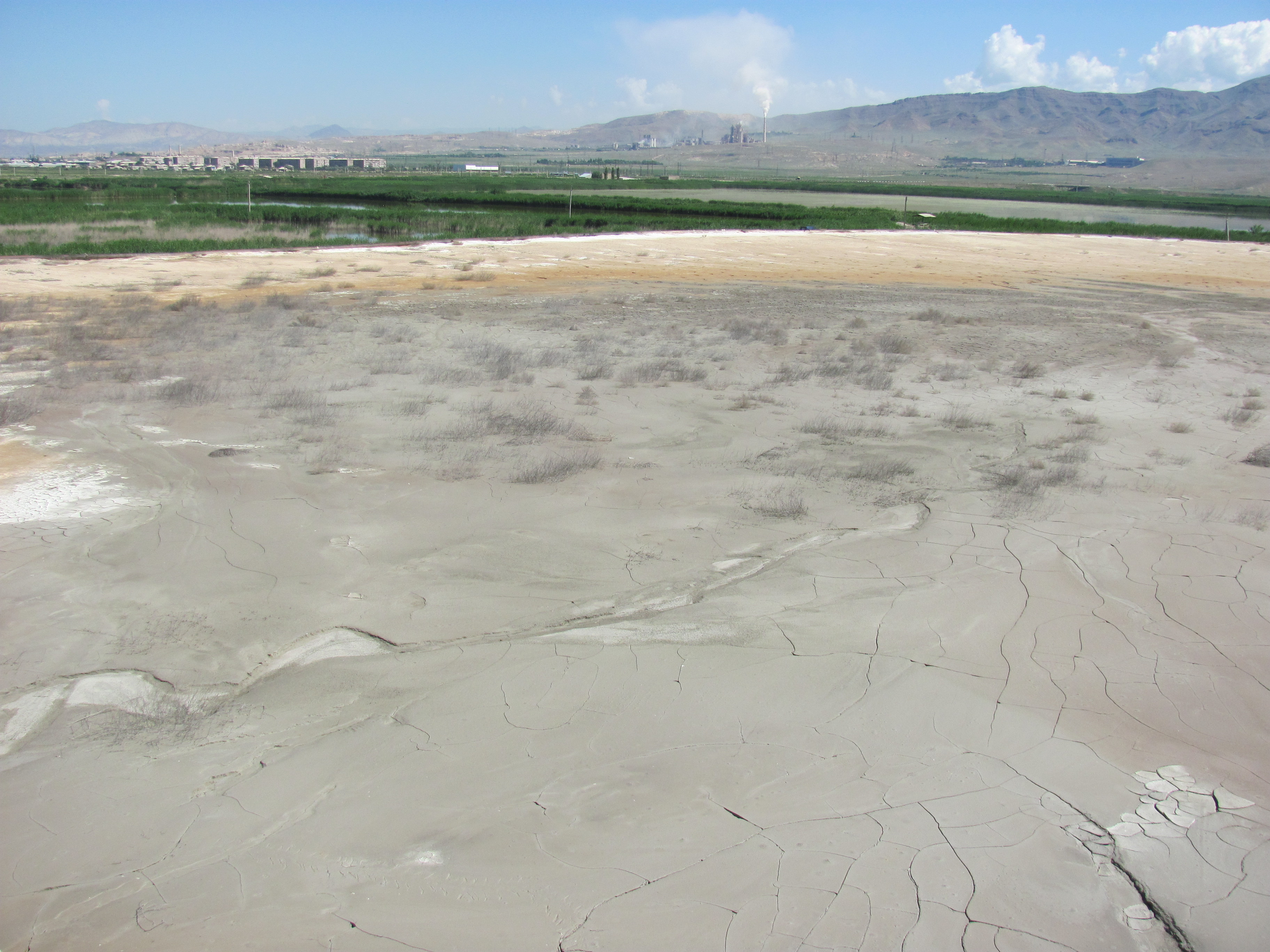 A general view of the tailings dump of the Ararat gold processing plant, with the town of Ararat in Armenia in the background. The cement factory can be seen in the center and the Ararat gold processing facility can be seen on the right.